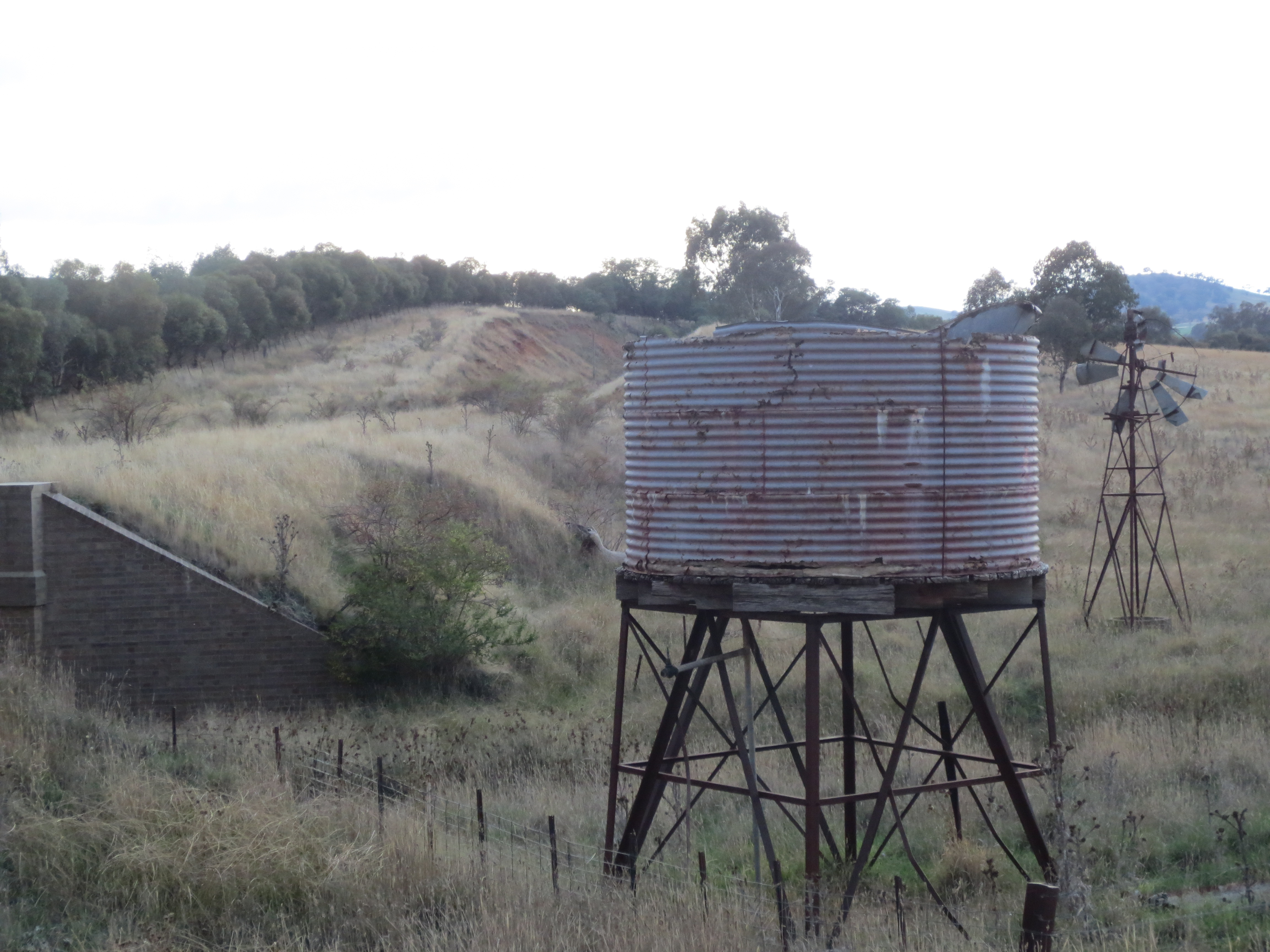 photo taken November 2015